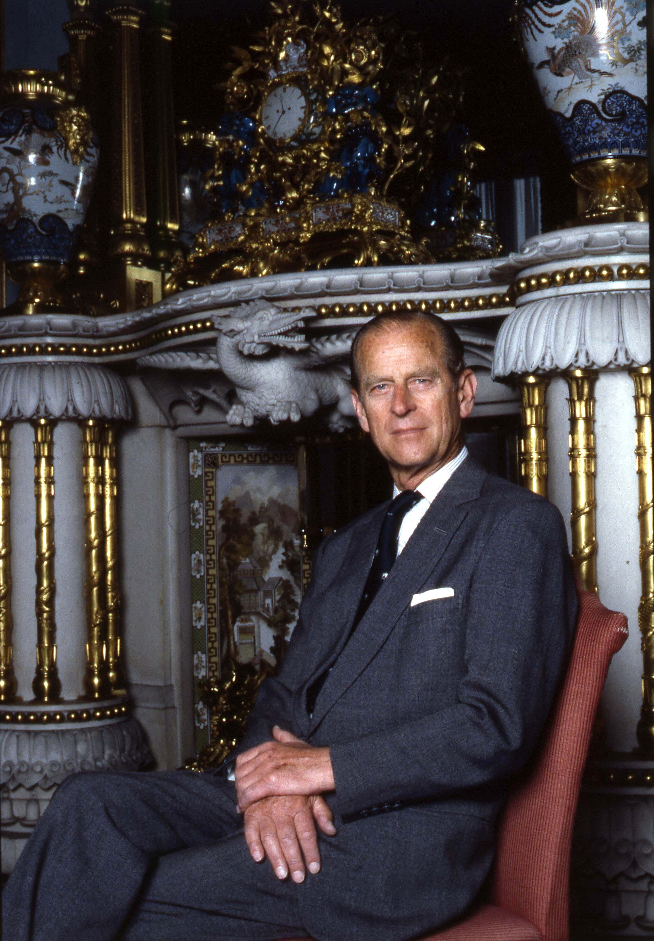 portrait of HRH The Duke of Edinburgh taken in the chinese room in Buckingham Palace